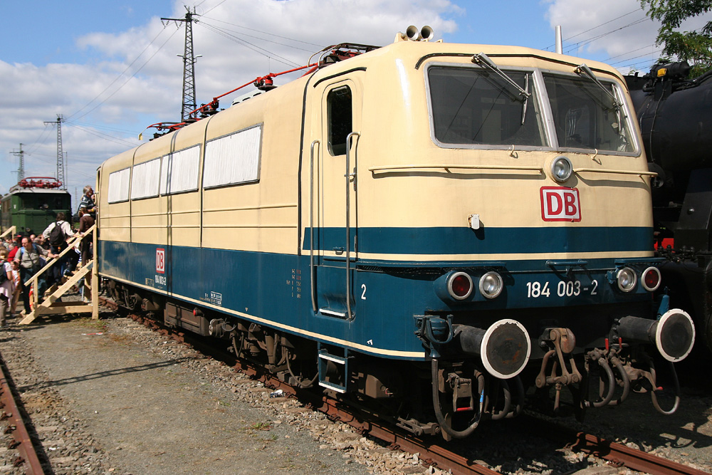 The locomotive 184 003 on the railway station of Fürth, Germany